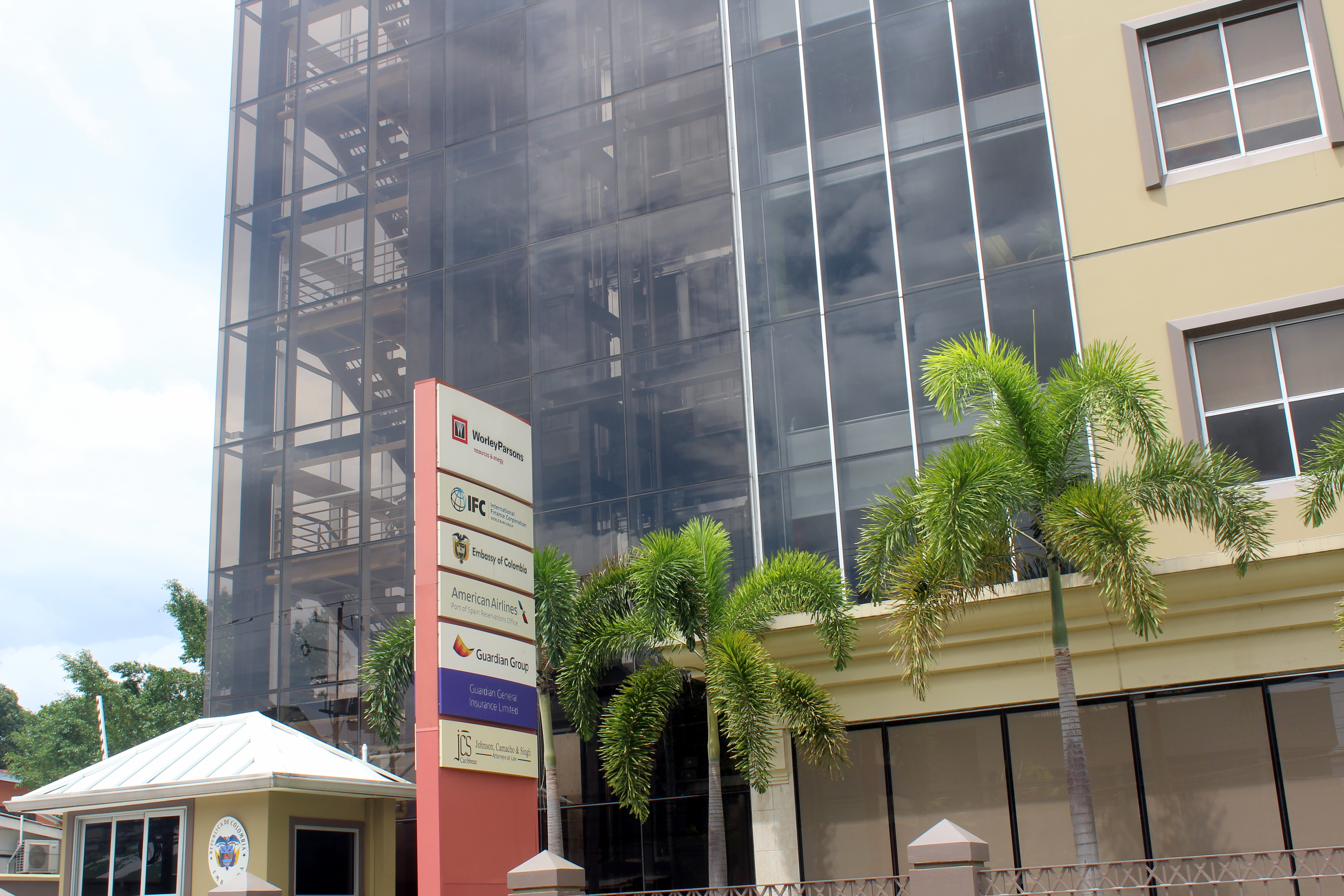 Colombian Embassy at Newtown Centre building in Port of Spain